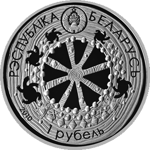 Belarusan copper-nickel commemorative coin «Легенда пра чарапаху». Denomination 1 ruble.